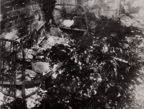 Warsaw Uprising: Room in basement of the Jesuit convent at Rakowieckiej 61 Street where on August 2, 1944 SS killed 25 monks and several civilian families.